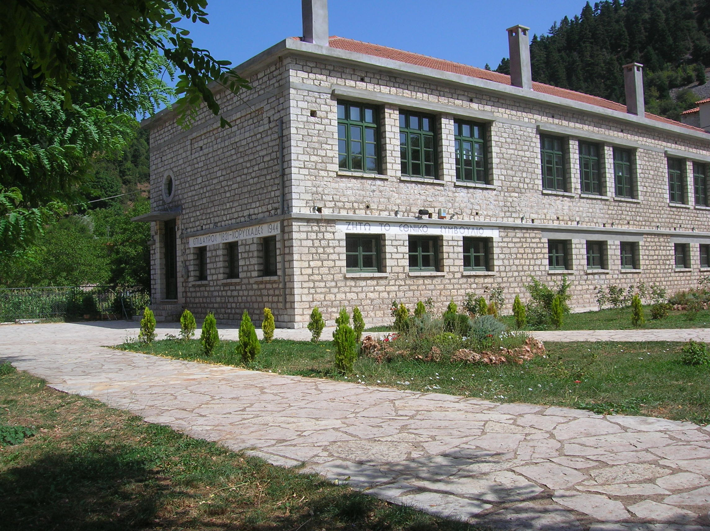 the building of the the first National Council (ethniko symboulio) of Greece during the 2nd WW at Korischades village, in Evritania prefecture, Greece